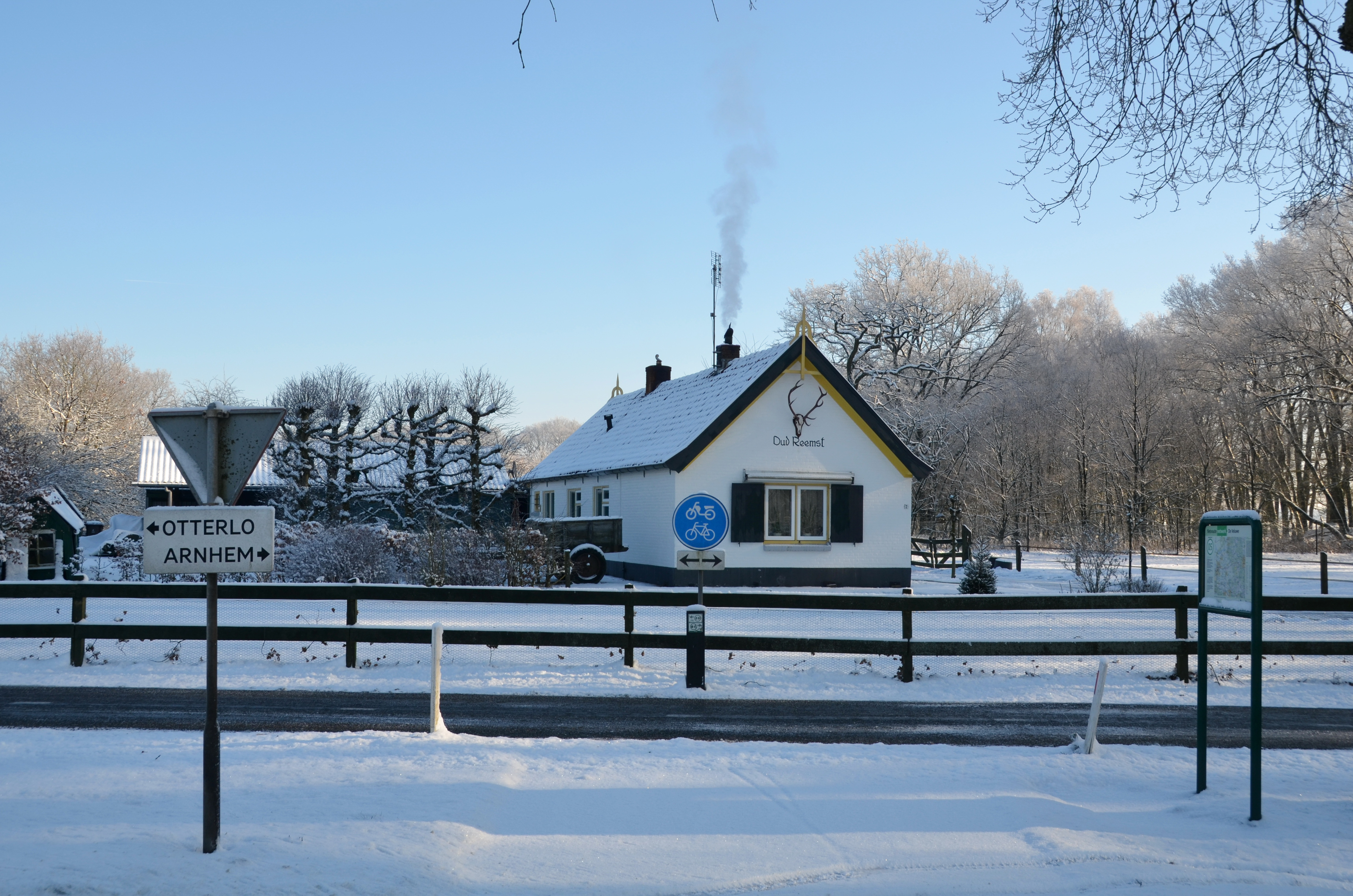 The forester's house "Oud Reemst" as the starting-point for nice walks at Oud Reemst